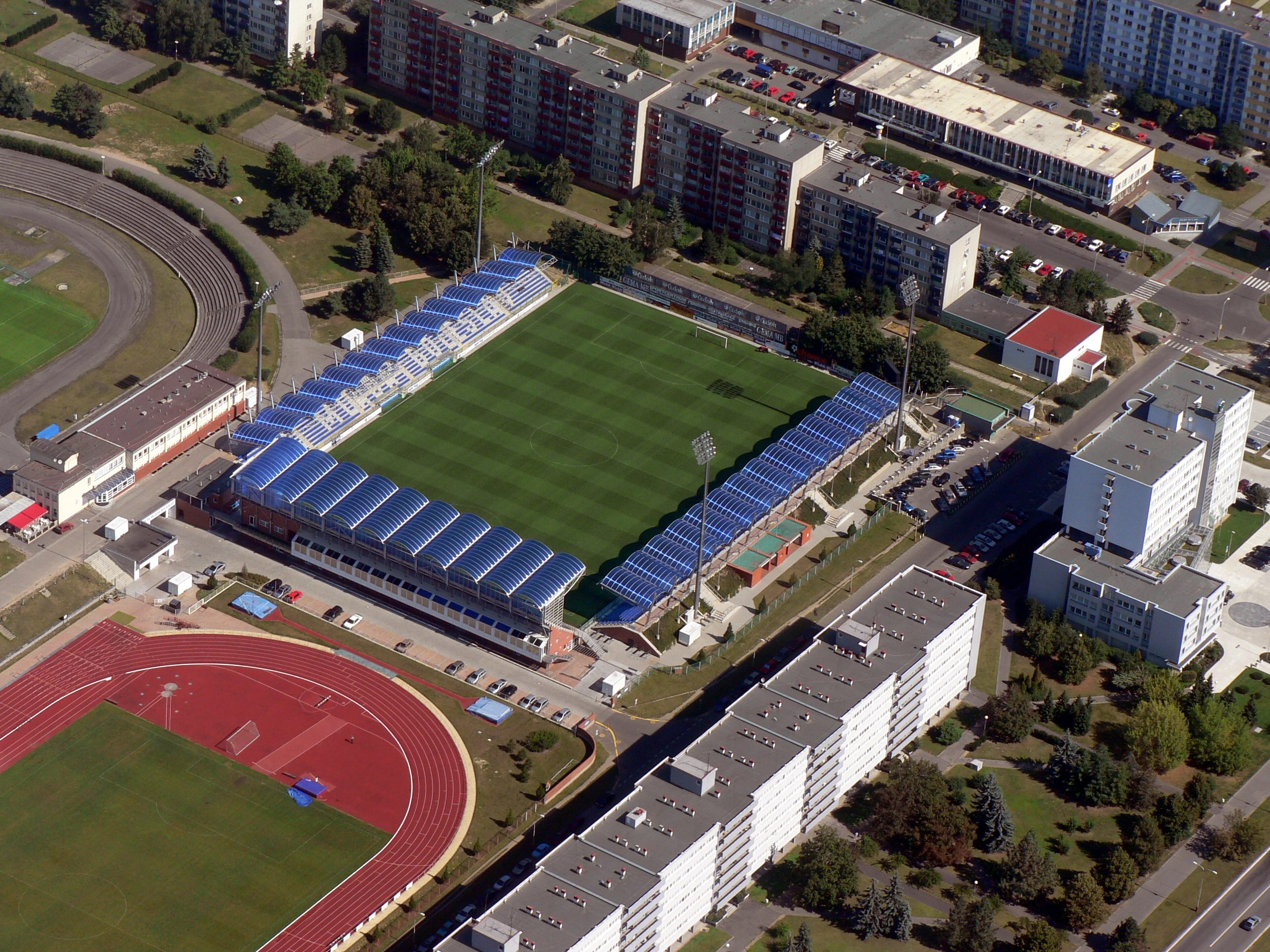 Stadium of the FK Mladá Boleslav football club.